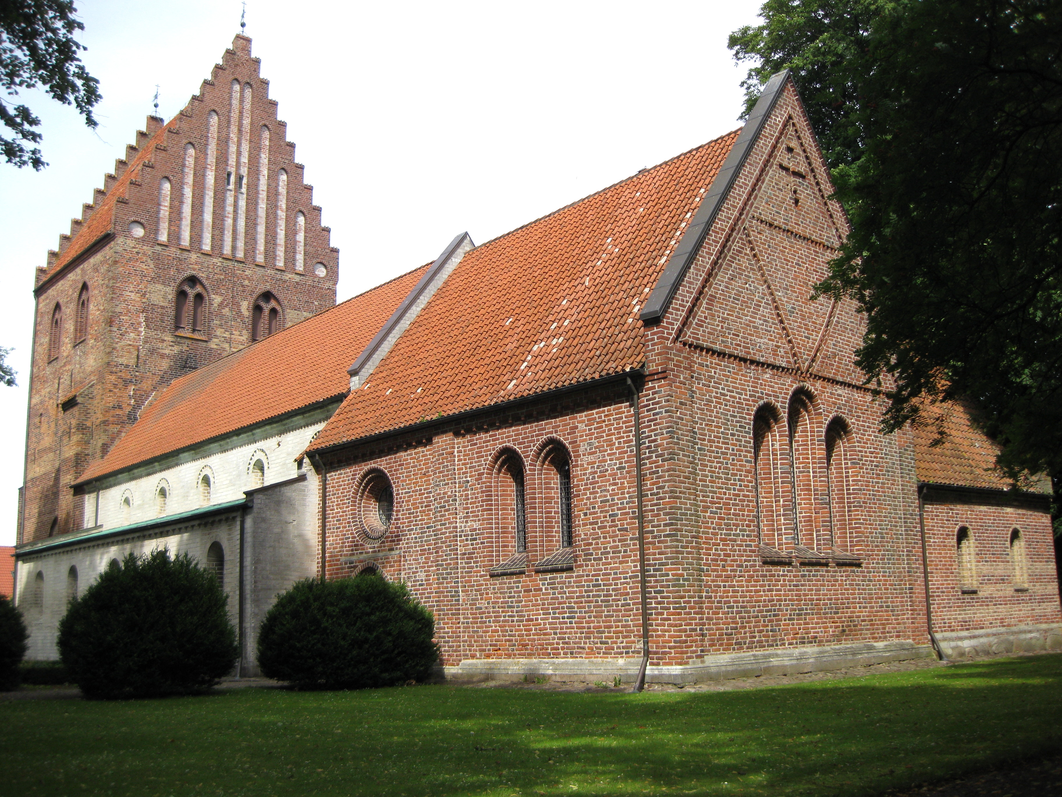 The church "Stubbekøbing Kirke" in the small town "Stubbekøbing". The town is located on the island Falster in east Denmark.